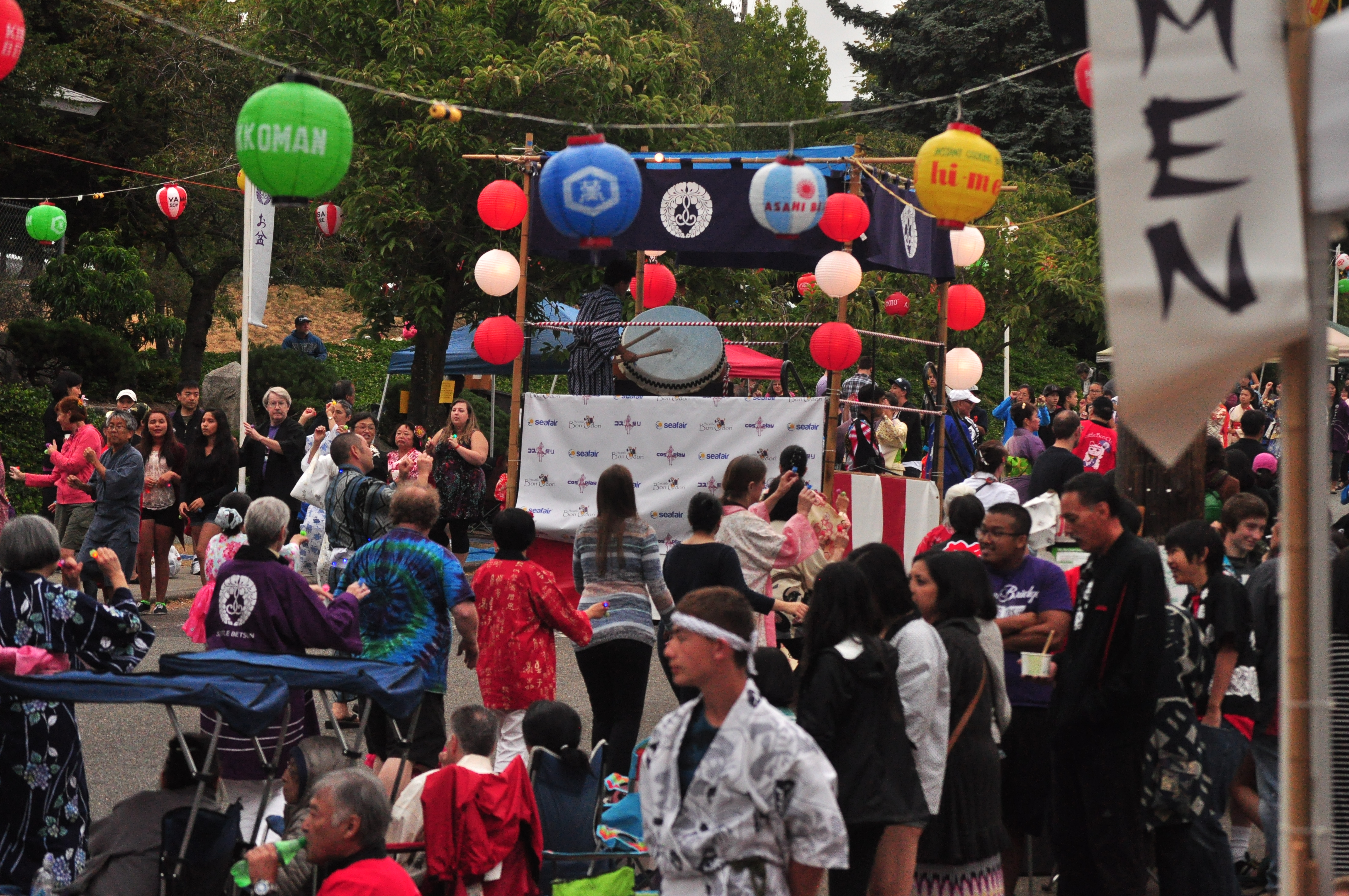 Bon Odori 2014, Seattle, Washington, USA.